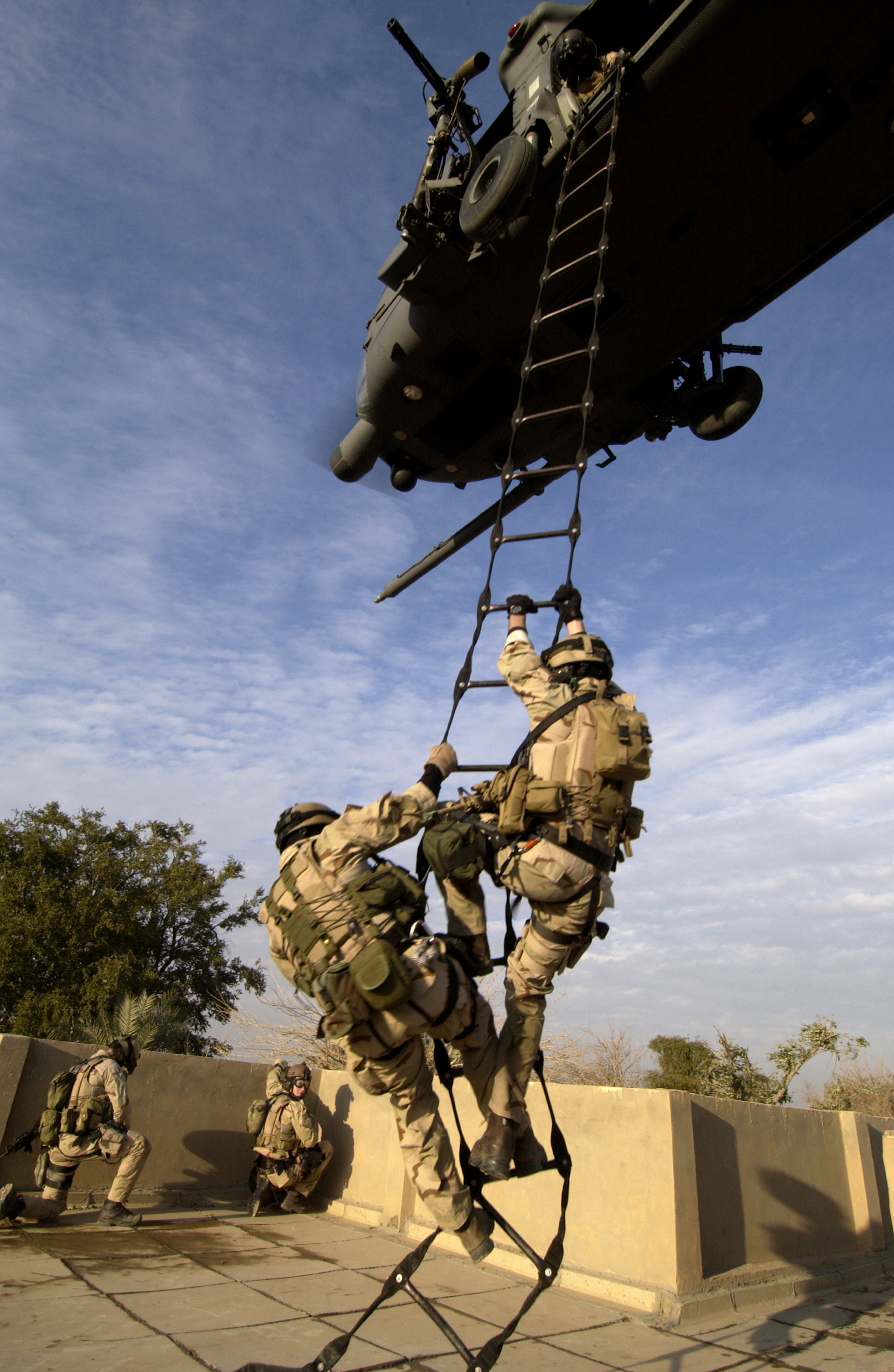 U.S. Air Force Para-rescuemen from the 64th Expeditionary Rescue Squadron are extracted by an HH-60G Pave Hawk helicopter from an abandoned housing site near the Baghdad International Airport, Iraq, on Dec. 20, 2004.